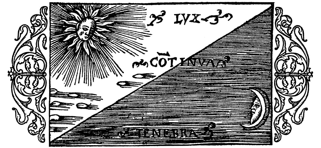 The picture is divided in a light part (with the sun) and a dark part (with the moon). This illustrates that the year in the far North consist of one day and one night only. The latin word “LUX” means “light”, the word “TENEBRA” means “darkness.